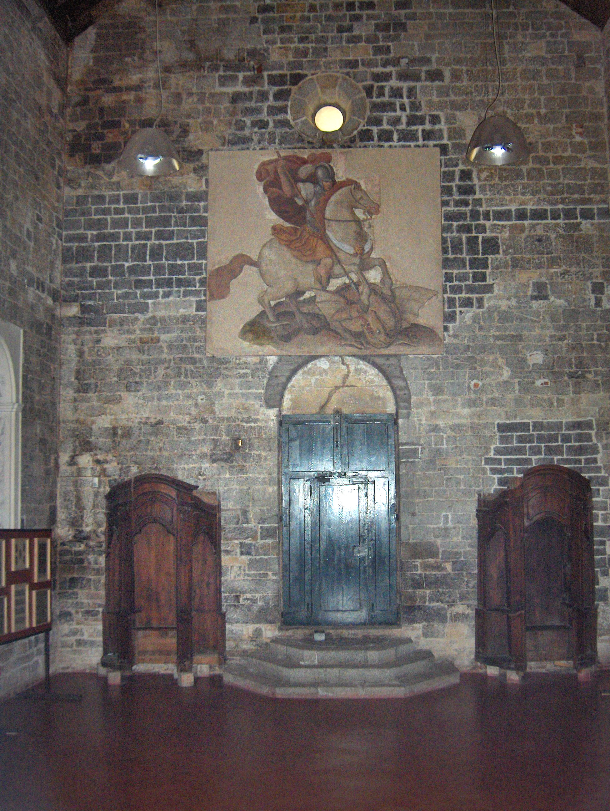 16th century fresco of St. George and the dragon; Oratorio di S. Catarina; Cervo, Italy